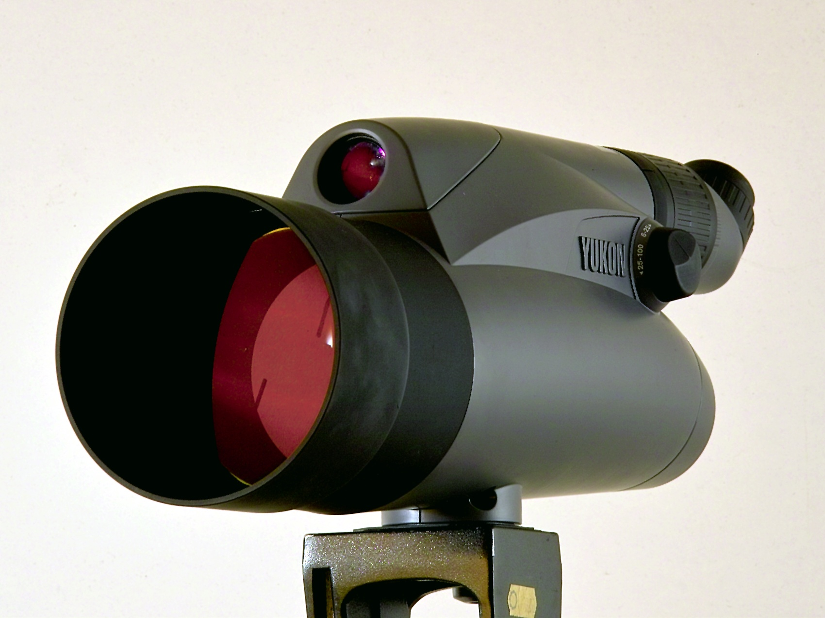 Yukon spotting scope made by Yukon Advanced Optics, Lithuania. 100mm x 25-100 with viewfinder 30mm. 100mm-lens made of polymer.